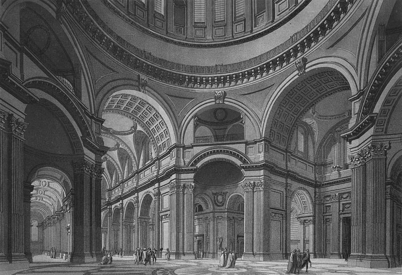 Cathedral of StPaul in London